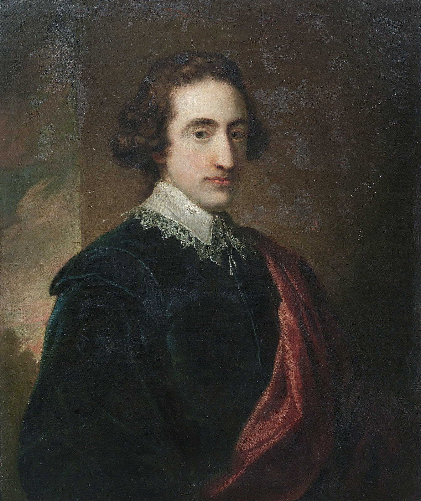 Henry Cresset Pelham oil on canvas 76.2 x 63.4 cm